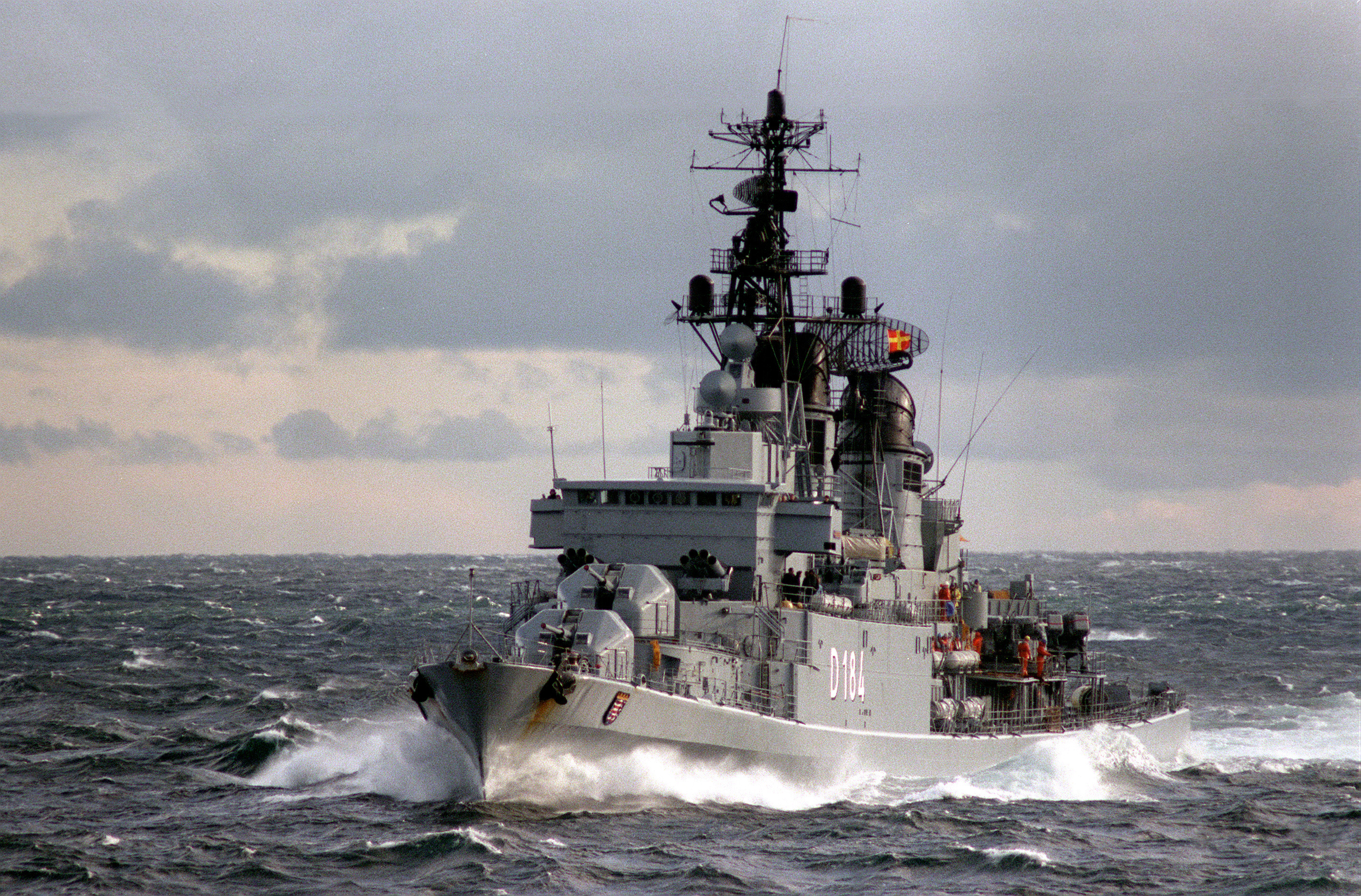 A port bow view of the West German destroyer FGS HESSEN (D-184) underway during NATO exercise Northern Wedding '86.